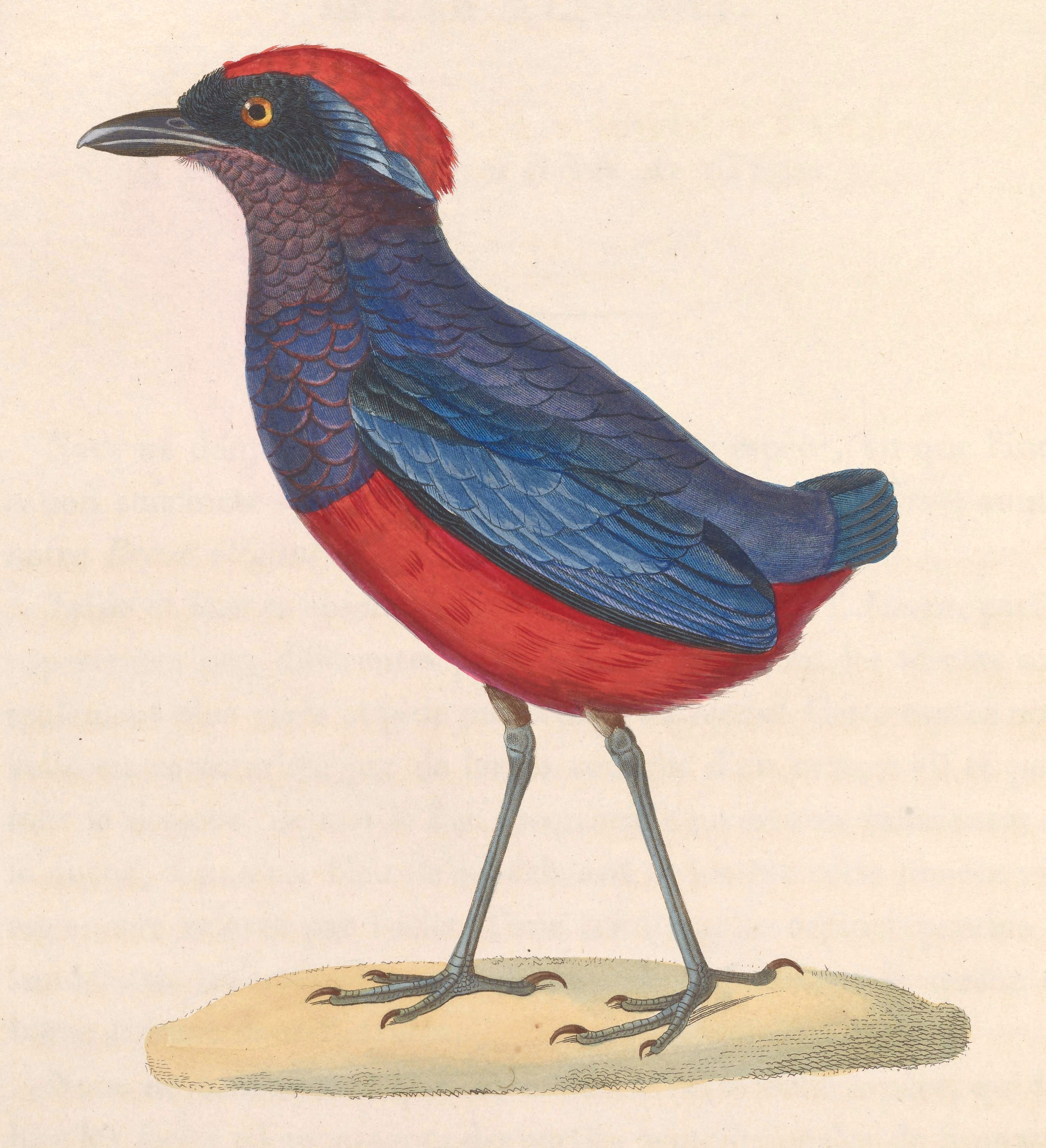 « Pitta granatina » = Erythropitta granatina (Garnet pitta) - male